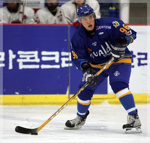 Ice hockey player Dong-Hwan Song